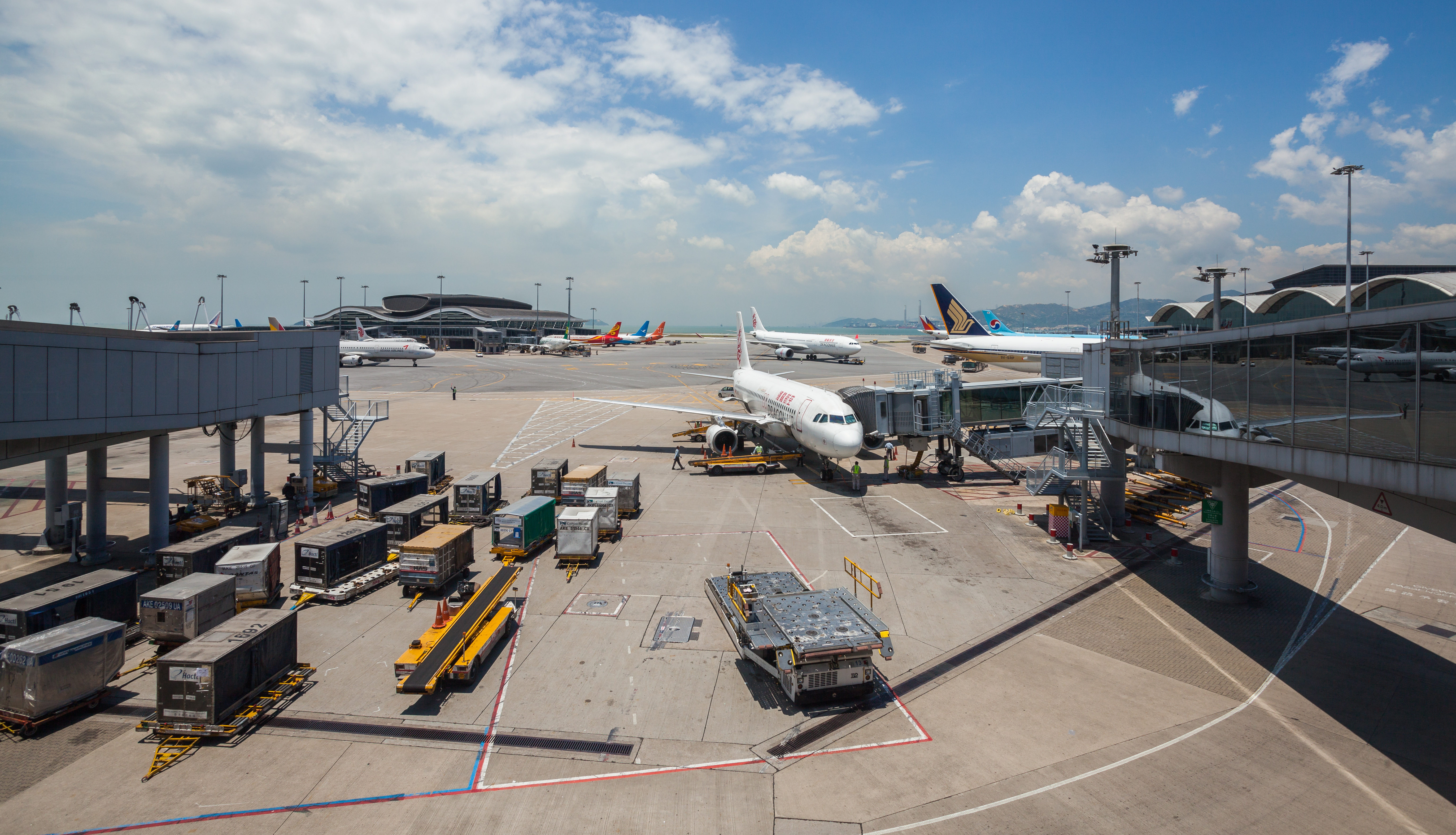 Hong Kong Airport